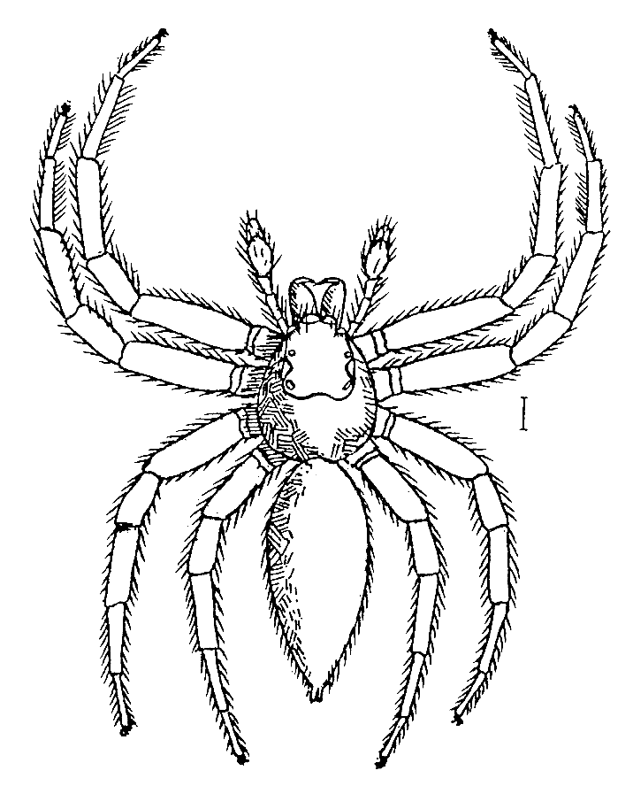 Telamonia hasselti male from Workman, 1896. Specimen from Indonesia.